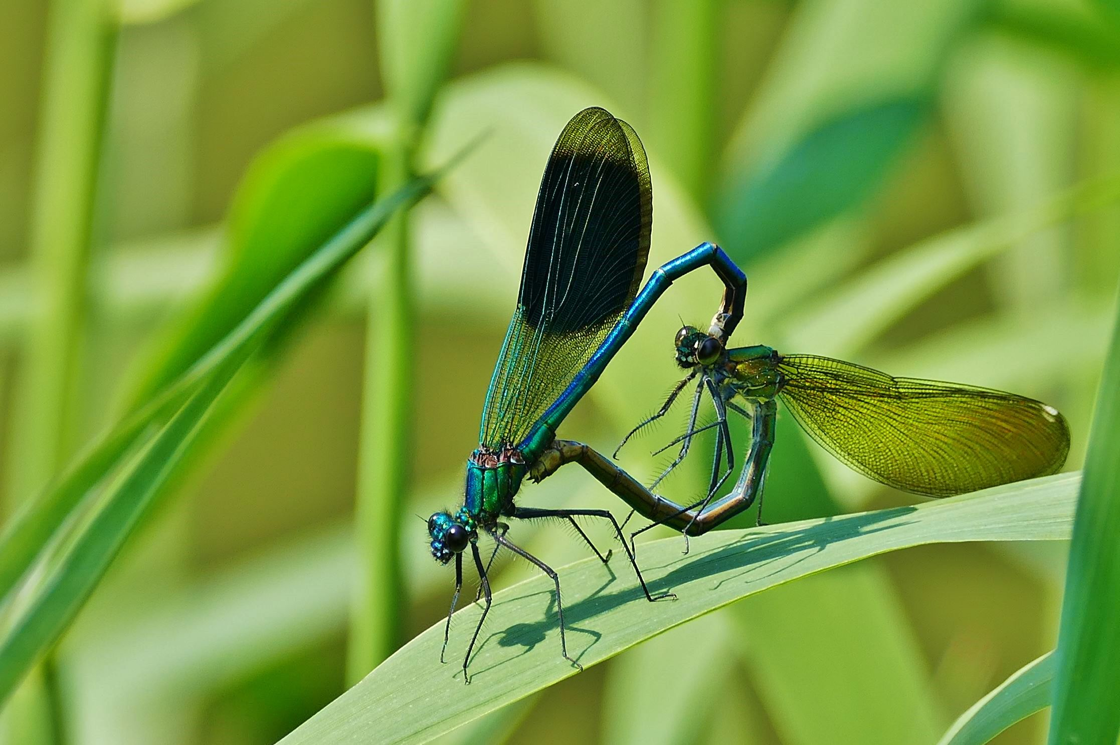 Calopteryx splendens